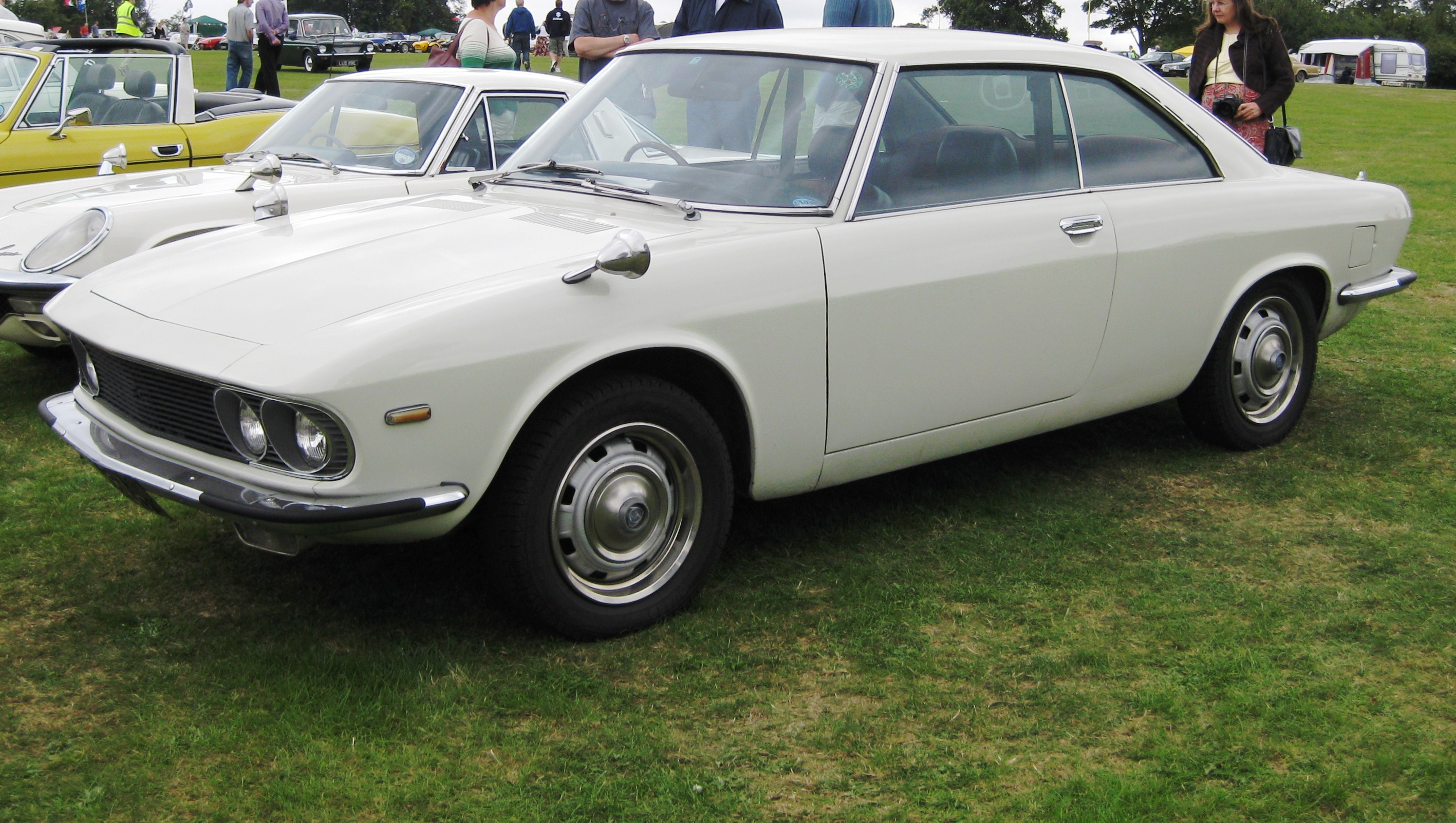 Mazda R130 (if rotary engined) or 1800 coupe (if piston engined)